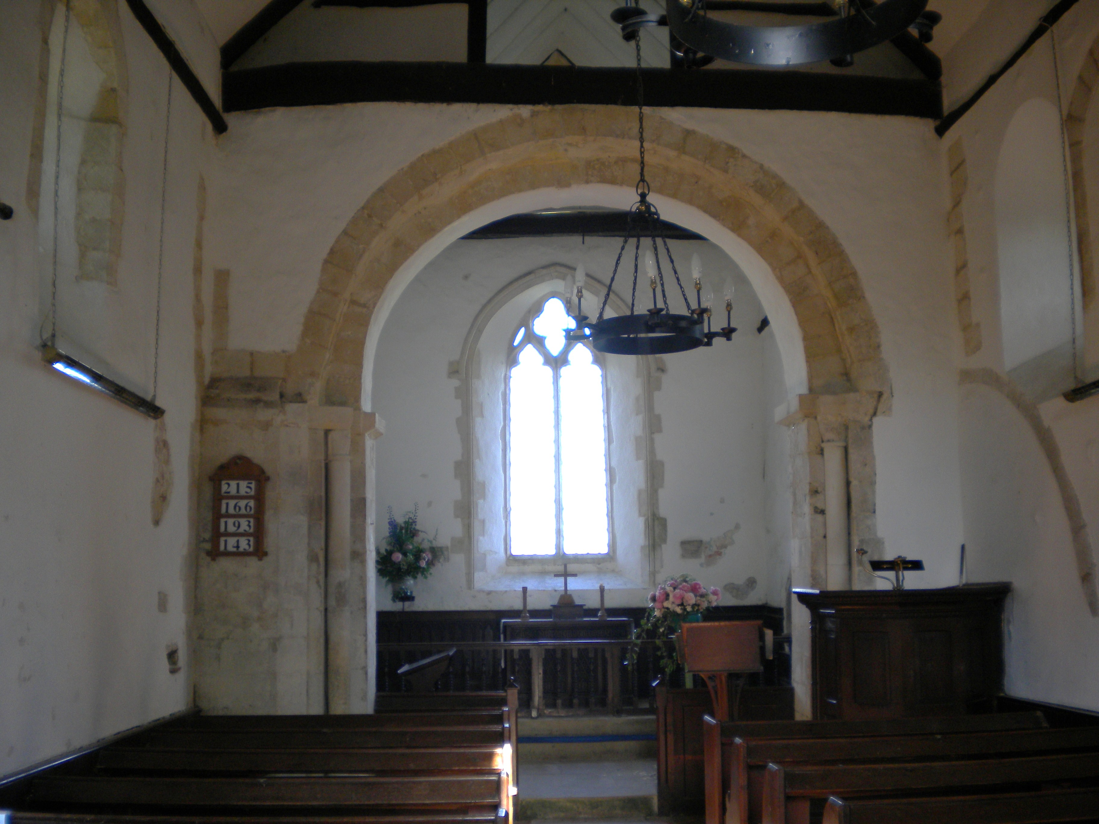 Buncton All Saints Chapel, Wiston, West Sussex, England.